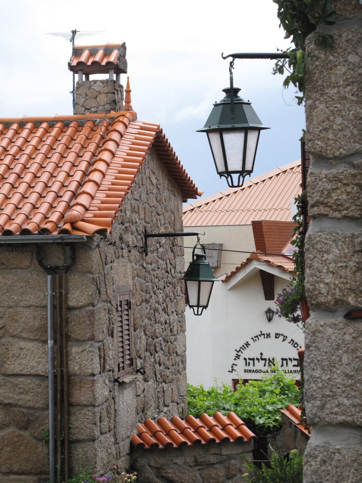 This file was uploaded for Wiki Loves Monuments in Portugal with the unique identifier 97011040.